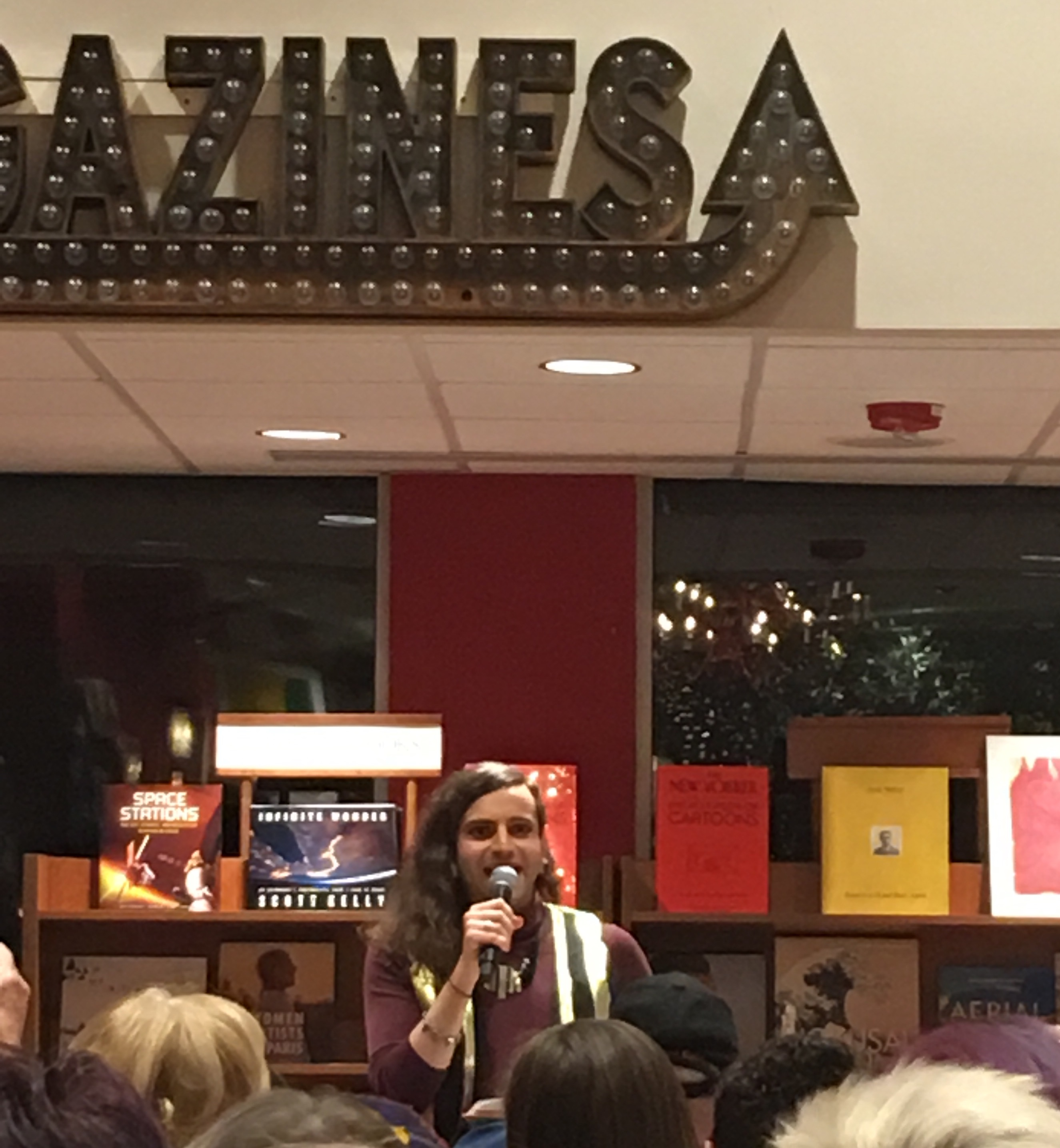 Jacob Tobia giving a talk on their new book, “Sissy”, on 7 March 2019 at Quail Ridge Books in Raleigh, North Carolina as part of their book tour.